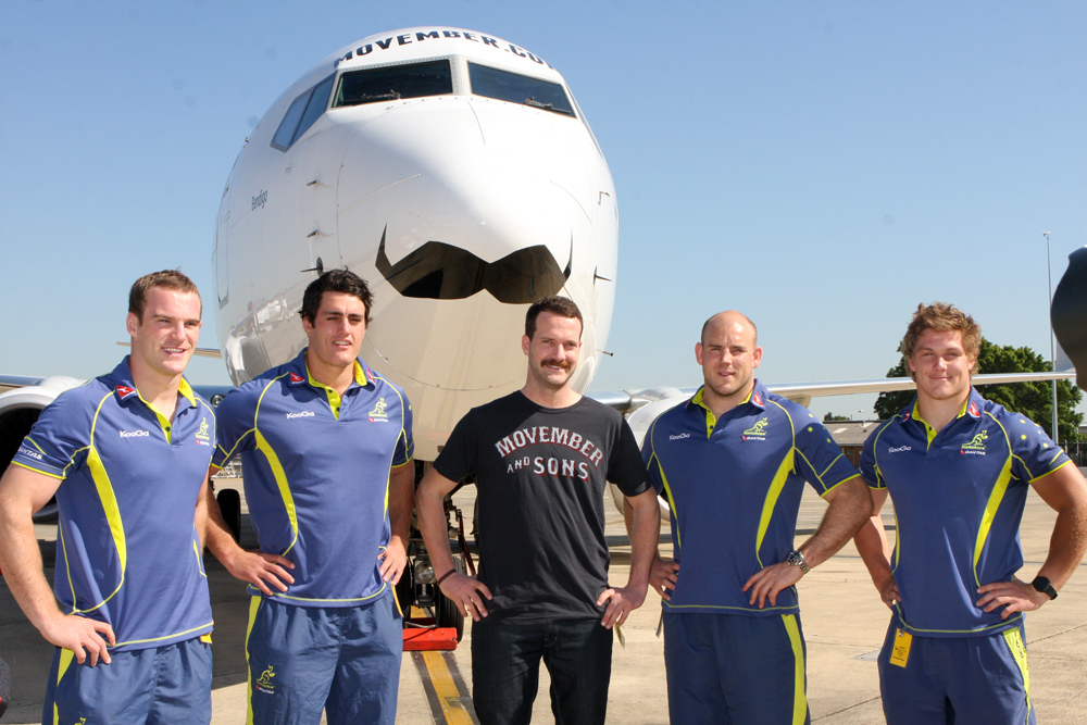 The Qantas Wallabies unveil a Boeing 737-800 aircraft sporting a giant moustache which will fly around the country for the month of November raising awareness of prostate cancer and men's mental health.